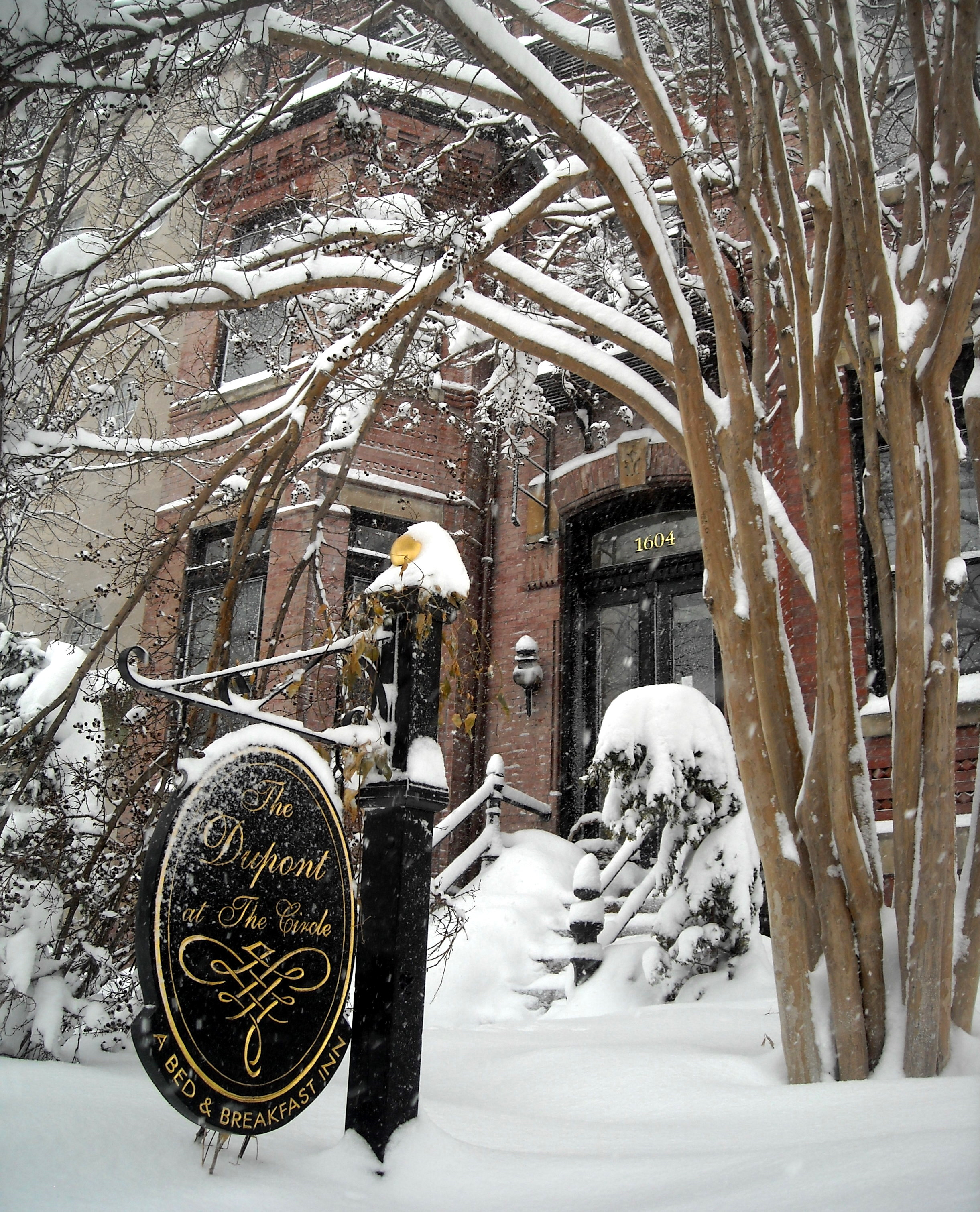 The front yard of the Dupont at the Circle B&B, located at 1604 19th Street, N.W., in the Dupont Circle neighborhood of Washington, D.C. Snow continues to pile up during the Second North American blizzard of 2010.